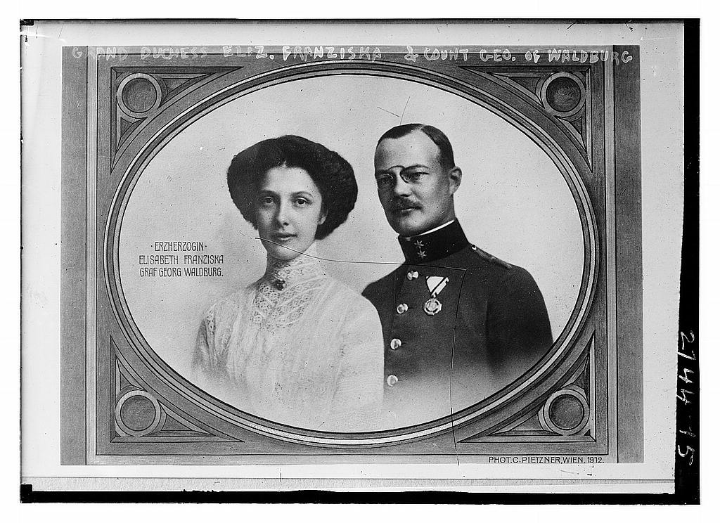 Bain News Service,, publisher. Archduchess Elisabeth Franziska of Austria and Count Georg Graf von Waldburg in 1912 [no date recorded on caption card] 1 negative : glass ; 5 x 7 in. or smaller. Notes: Title from unverified data provided by the Bain News Service on the negatives or caption cards. Forms part of: George Grantham Bain Collection (Library of Congress). Format: Glass negatives. Repository: Library of Congress, Prints and Photographs Division, Washington, D.C. 20540 USA, General information about the Bain Collection is available at Persistent URL: Call Number: LC-B2- 2744-15 Comments and faves